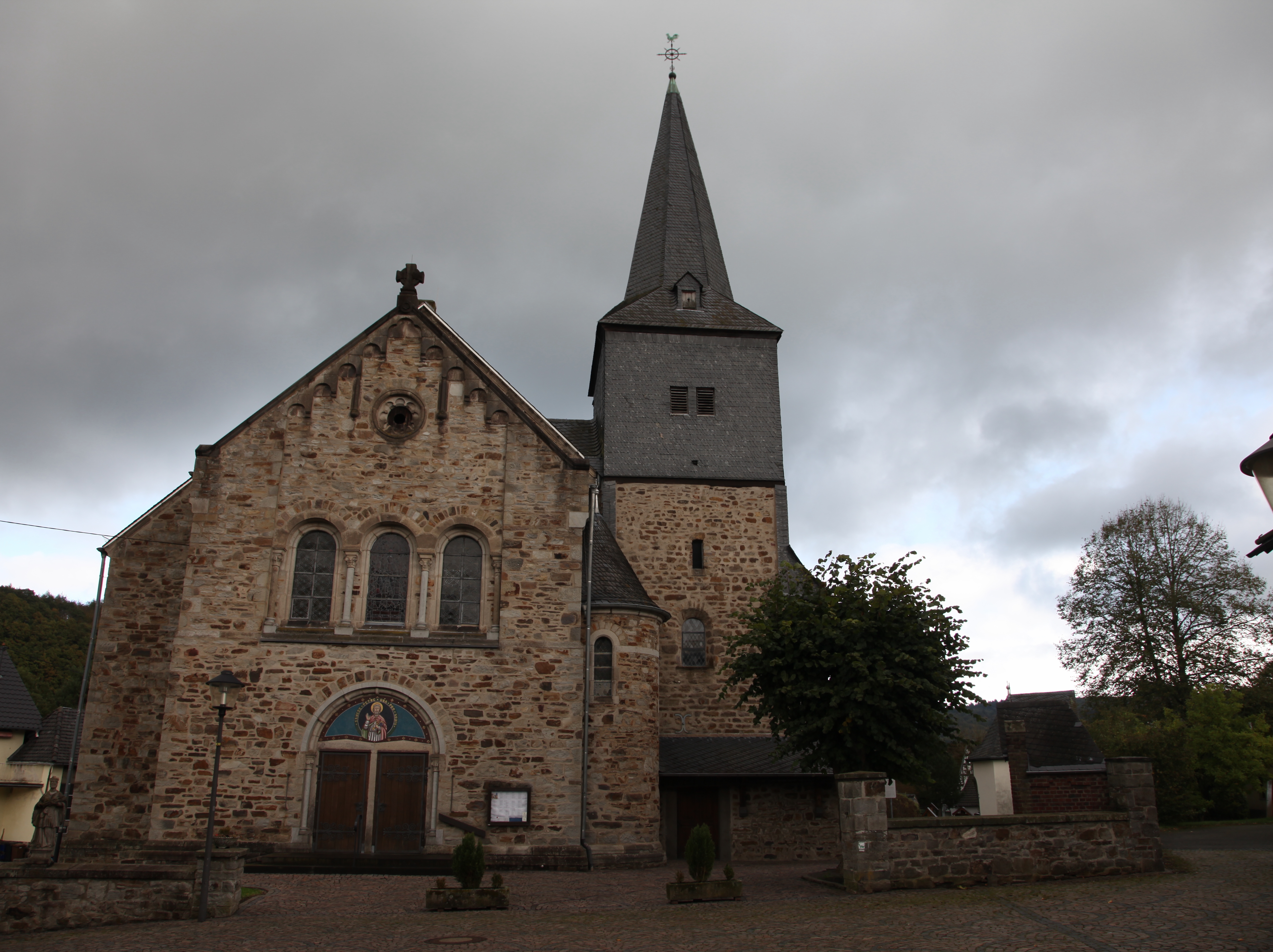 Catholic Parish Church St. Petrus was built in 1900/01.